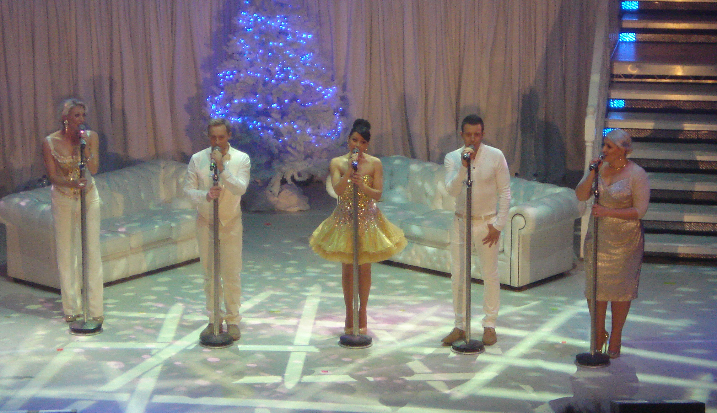 Steps performing live on their 'Christmas with Steps' tour at the Manchester Apollo on December 3, 2012. From L-R Faye Tozer, Ian 'H' Watkins, Lisa Scott-Lee, Lee Latchford-Evans and Claire Richards.